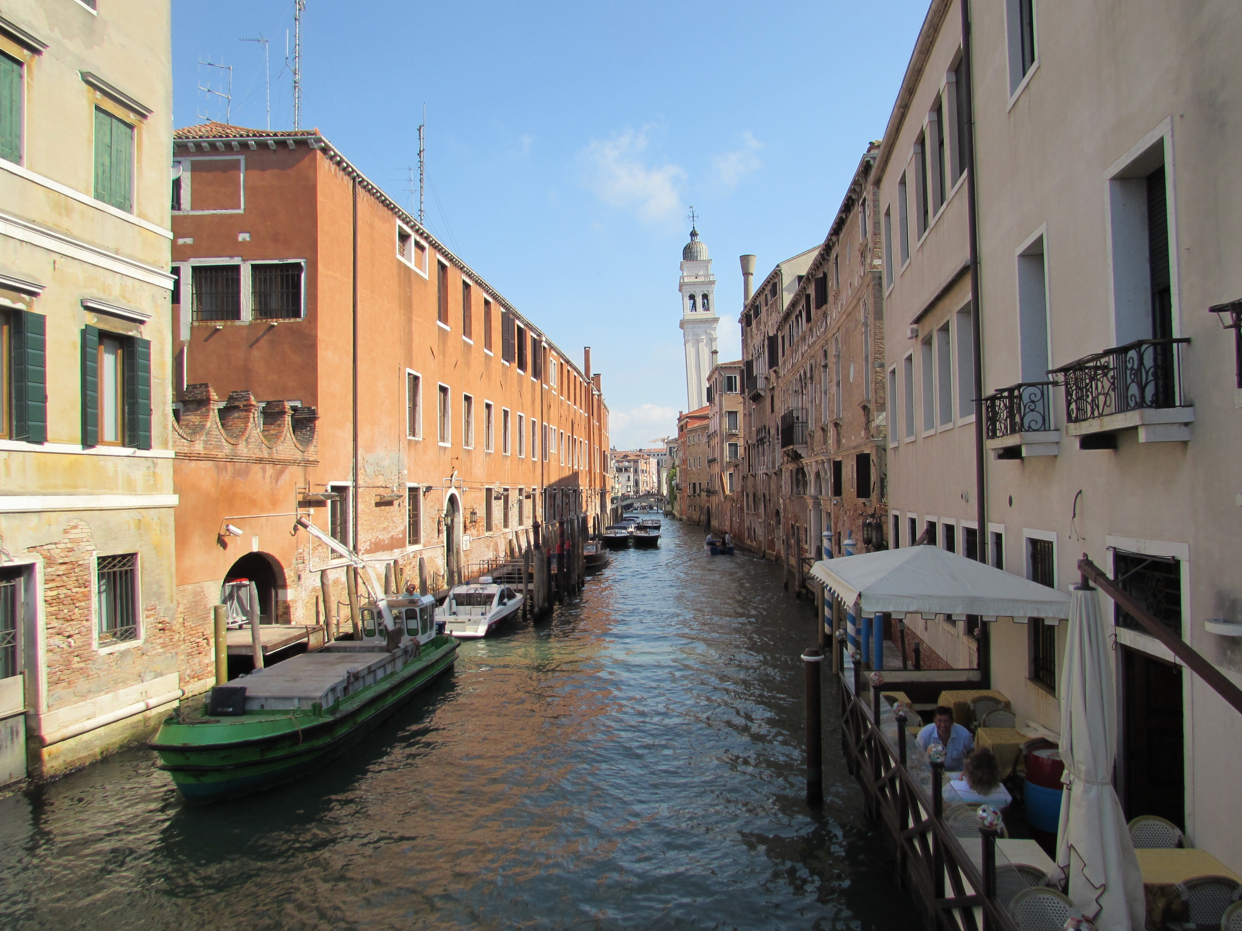 Rio dei Greci (Venice)